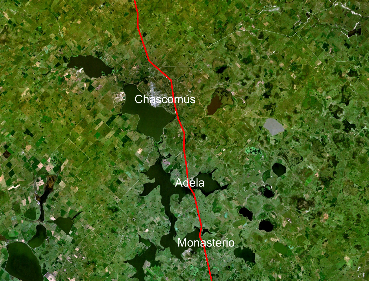 Lagoons near Autovia 2 (RP 2), Chascomús Partido, Buenos Aires Province, Argentina.